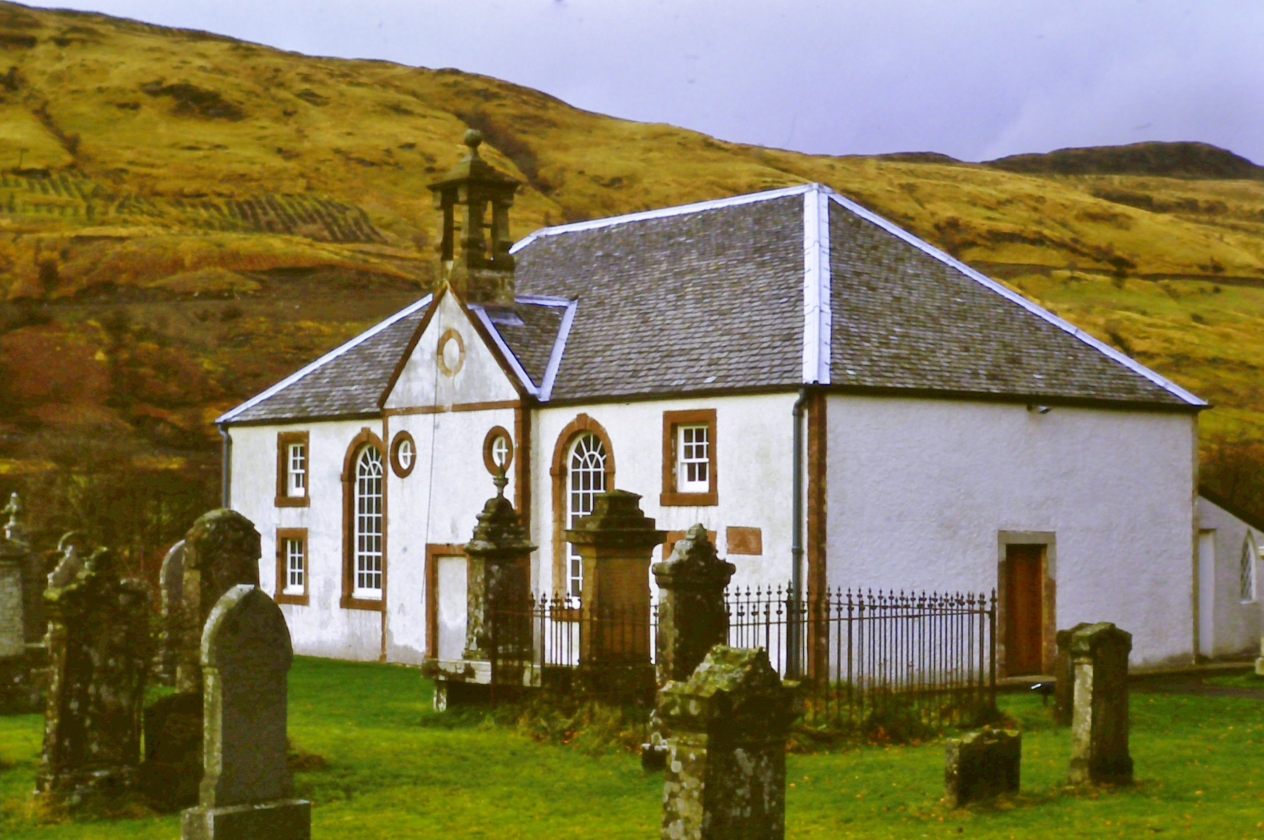 Kilmodan Church in Glendaruel, Argyll, photographed in 1985. It was built in 1783 on the site of an earlier church of 1610 and fully restored in 1983.